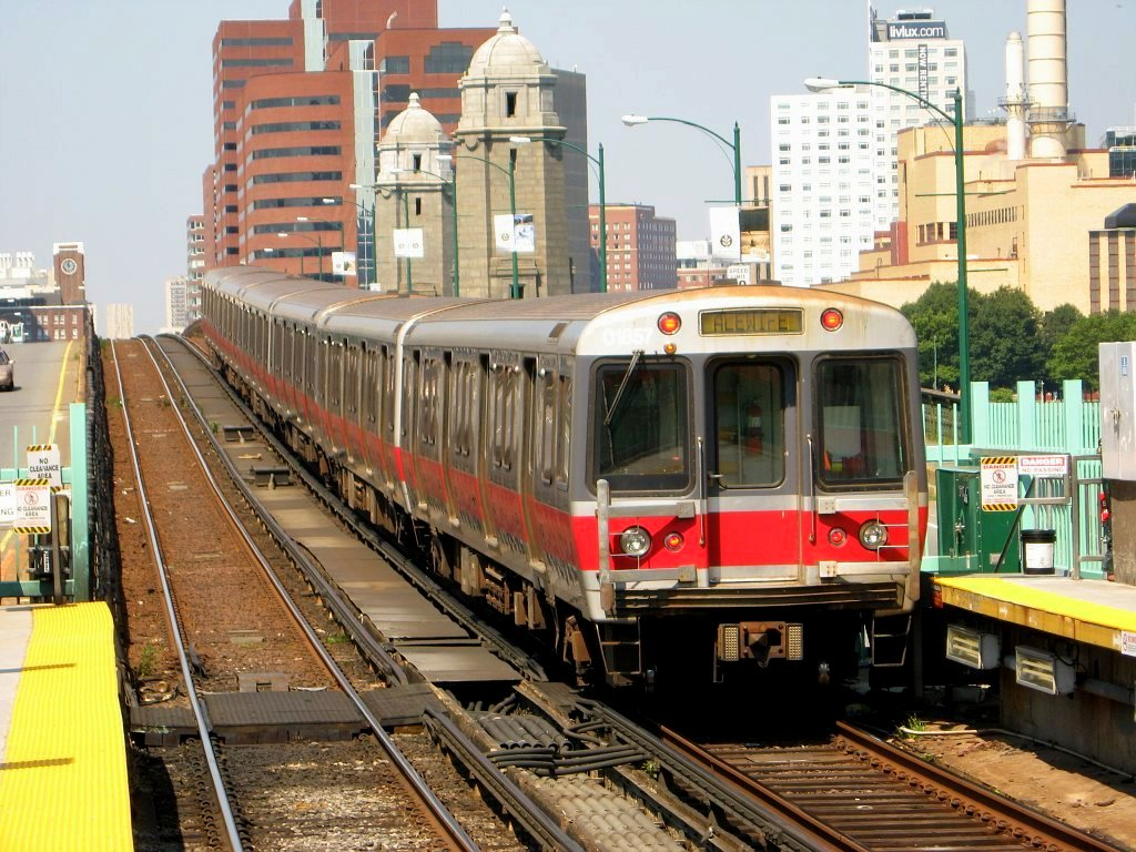 MBTA Red Line train going outbound over the Longfellow Bridge towards Alewife, leaving Charles/MGH station.